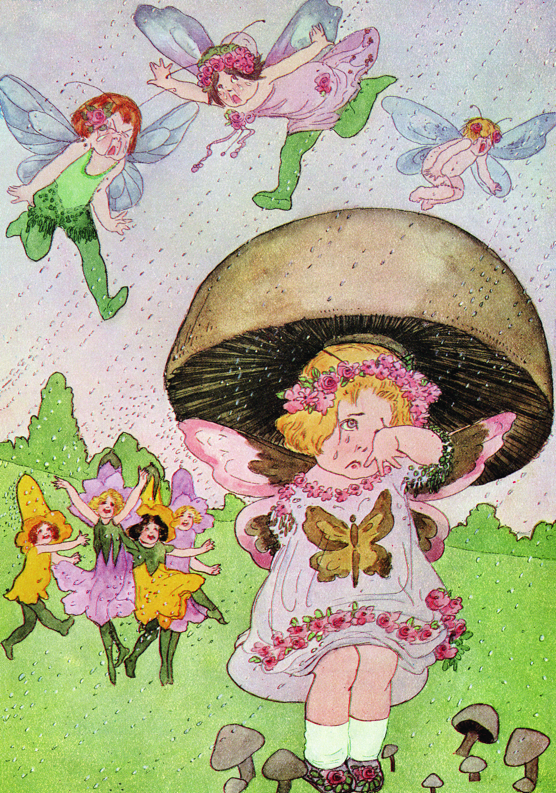 "April Fools Day" is an illustration reproduced directly from an original edition of A Year with the Fairies, written by Anna M. Scott, and illustrated by the wonderful artist, M. T. Ross. The work was published in 1914.